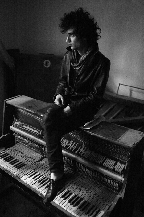 Portrait of a musician Tigran Hamasyan. Part of PAN Photo Agency archive.